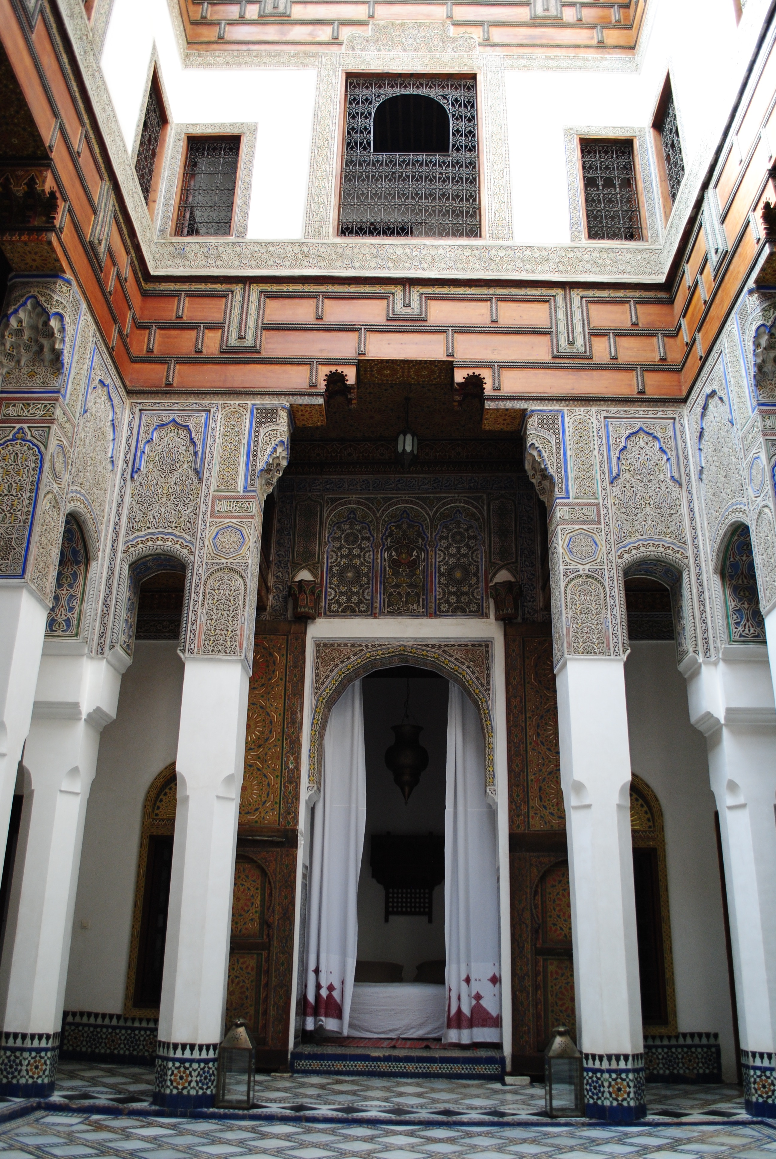 Dar Seffarine in Fes, Morocco